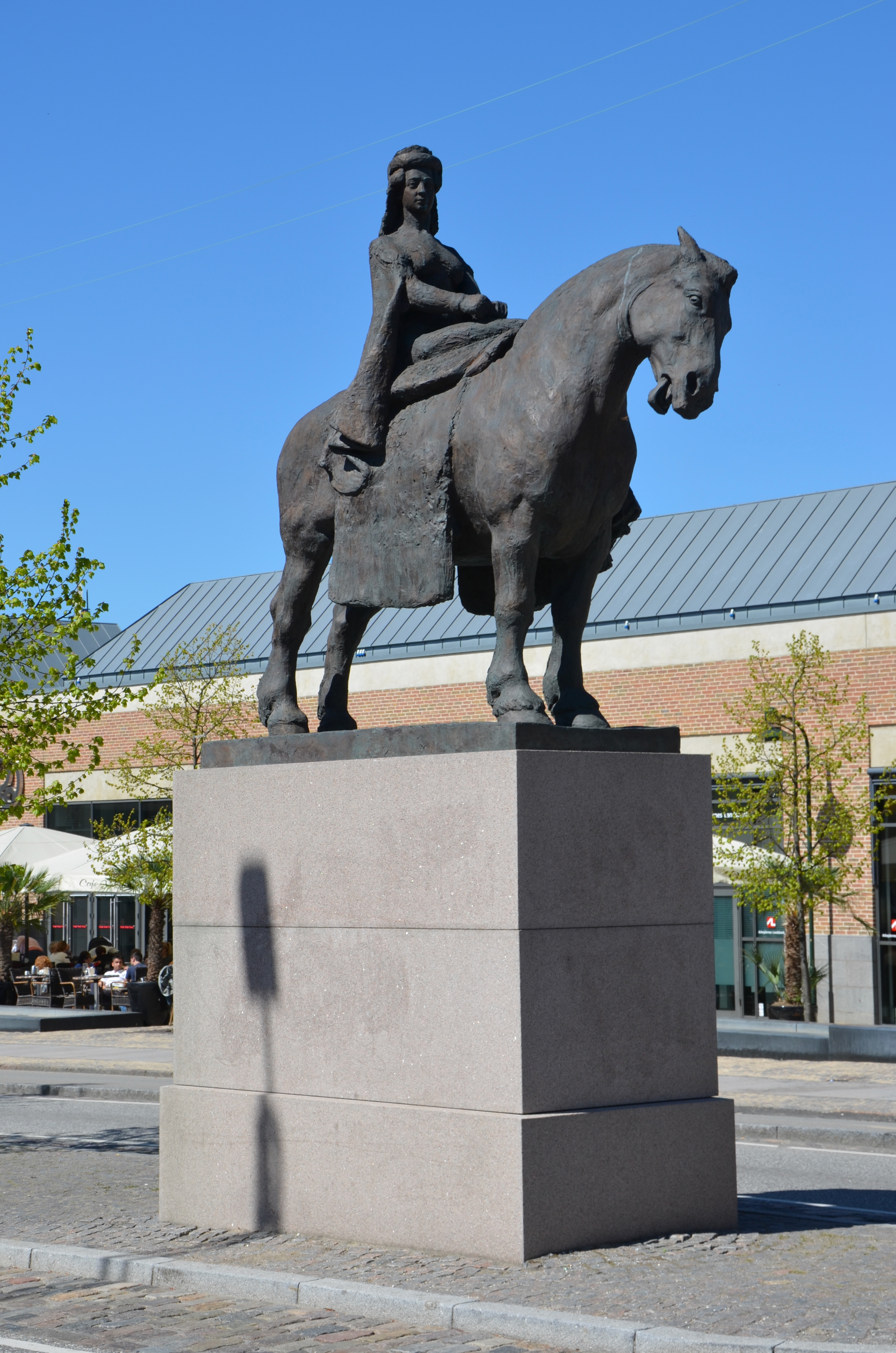 Danish, Norwegian and Swedish queen Margareta, sculpture by Anne-Marie Carl-Nielsen, ROV Center, Roskilde, Denmark